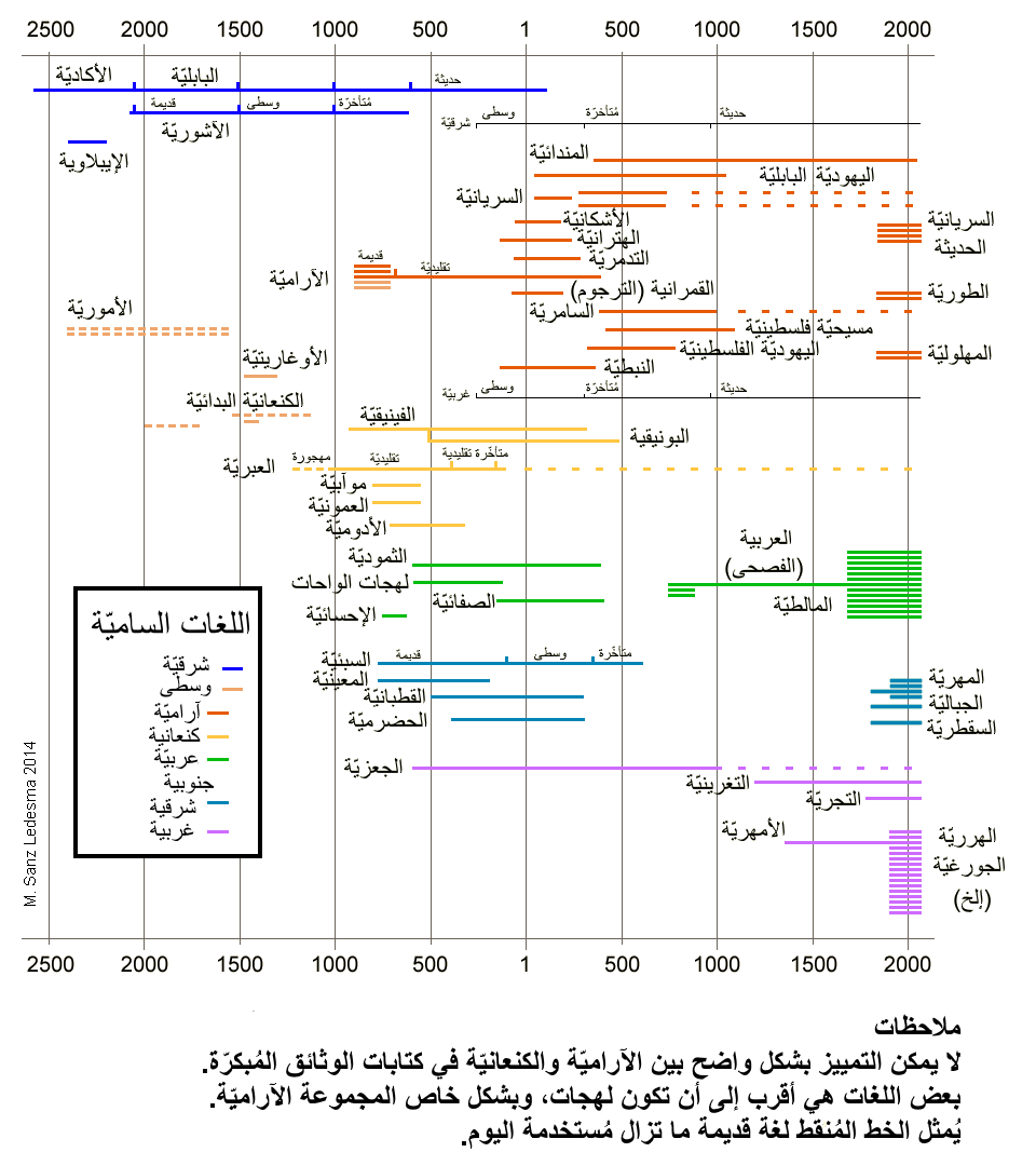 Chronology of the Semitic languages